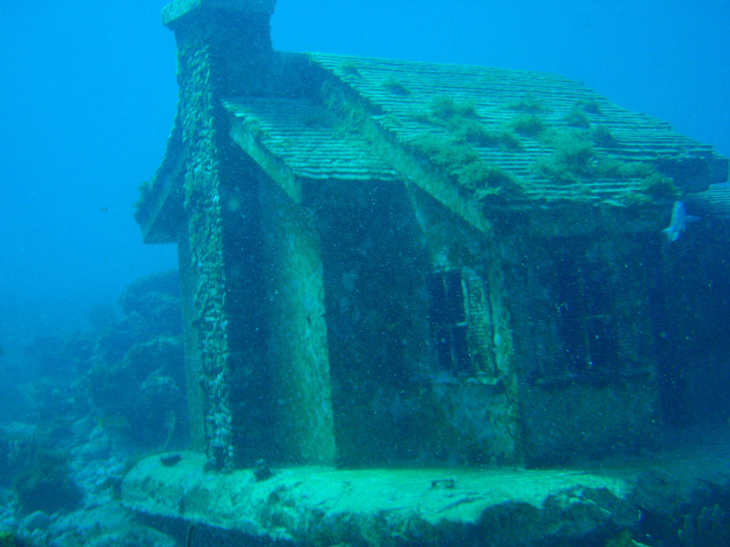 by Jason deCaires Taylor At Museo Subacuatico de Arte, aka MUSA, between Cancun and Isla Mujeres, Mexico